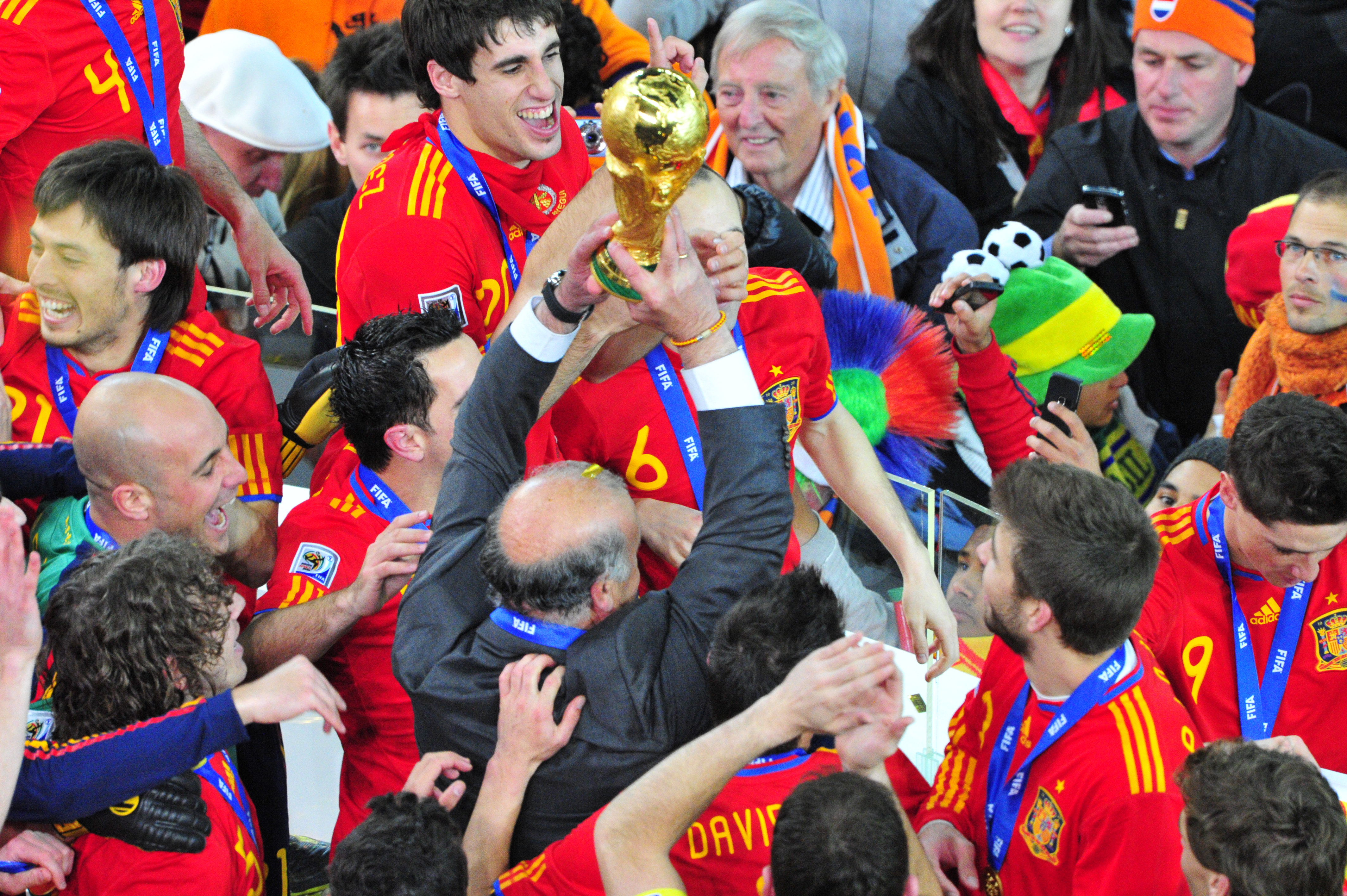 Spain with the cup after FIFA World Cup 2010 Final against Netherlands, 11 July 2010, Soccer City, Johannesburg